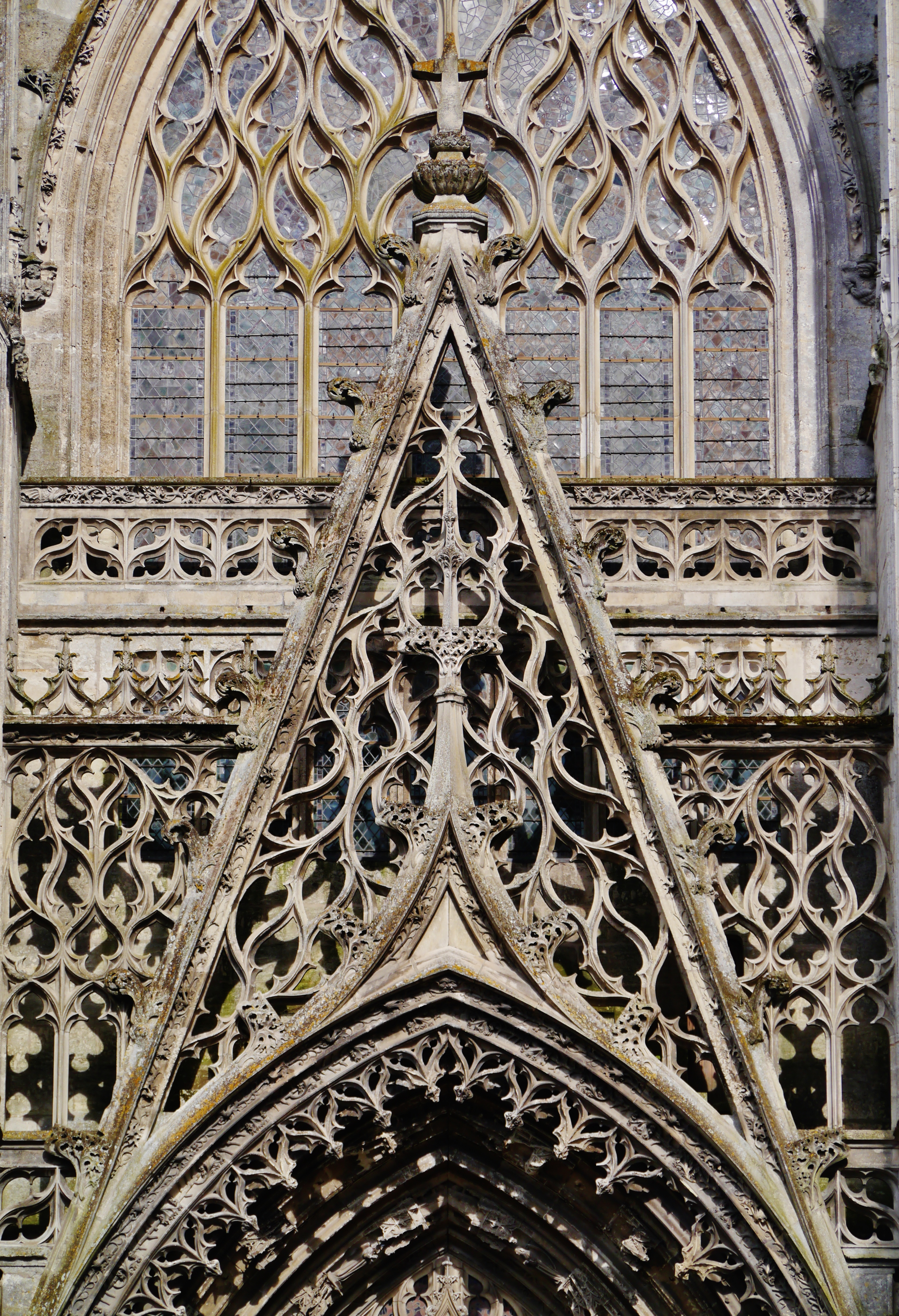 Tympanum of the Main Portal of the Abbey Church of the Most Holy Trinity, Vendôme, Department of Loir-et-Cher, Region of Centre-Loire Valley, France